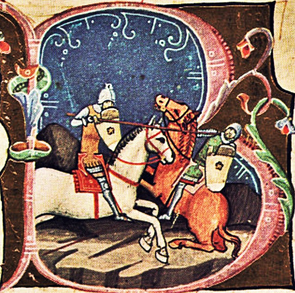 Béla's legendary duel with the Pomeranian leader in Poland